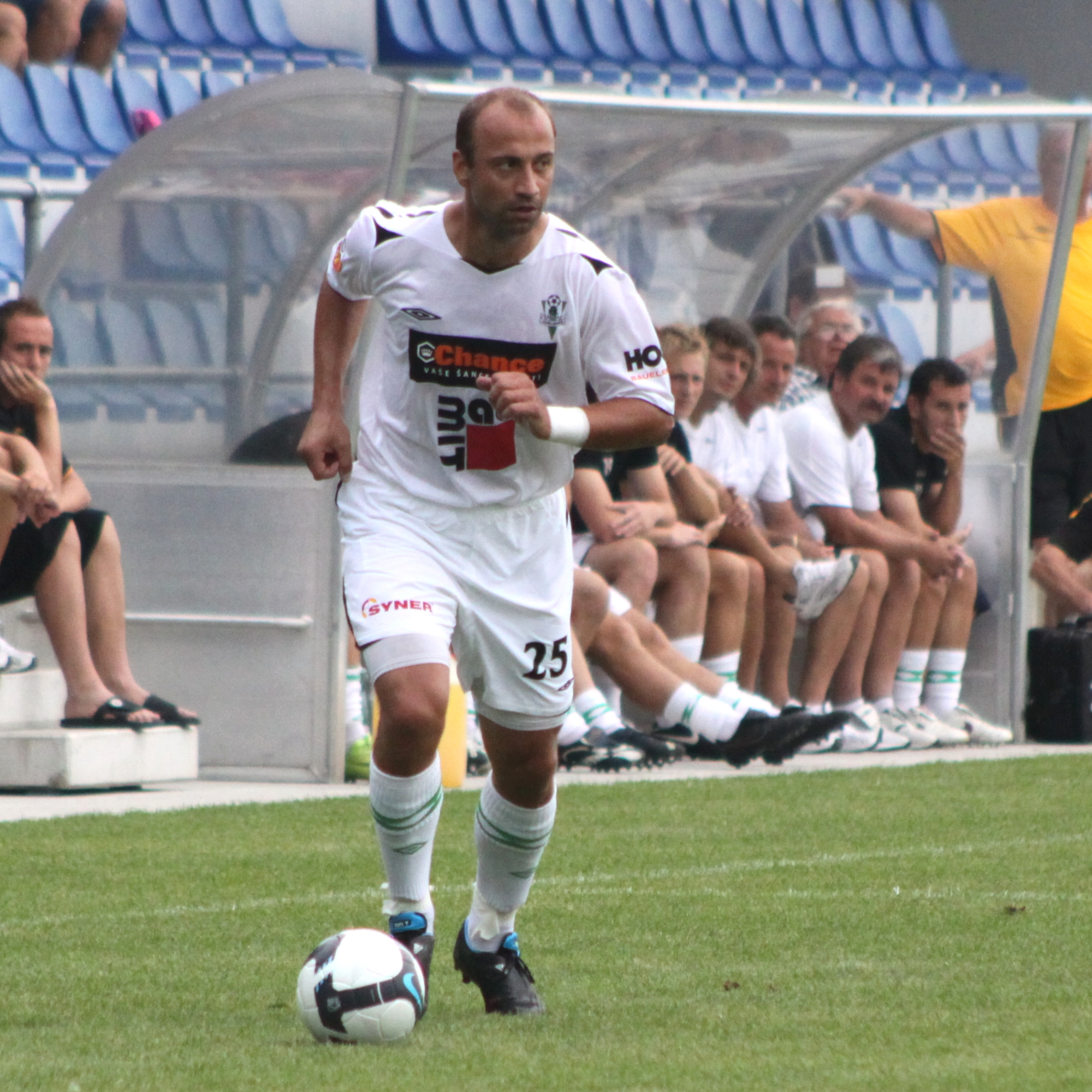 Pavel Drsek - FK Baumit Jablonec